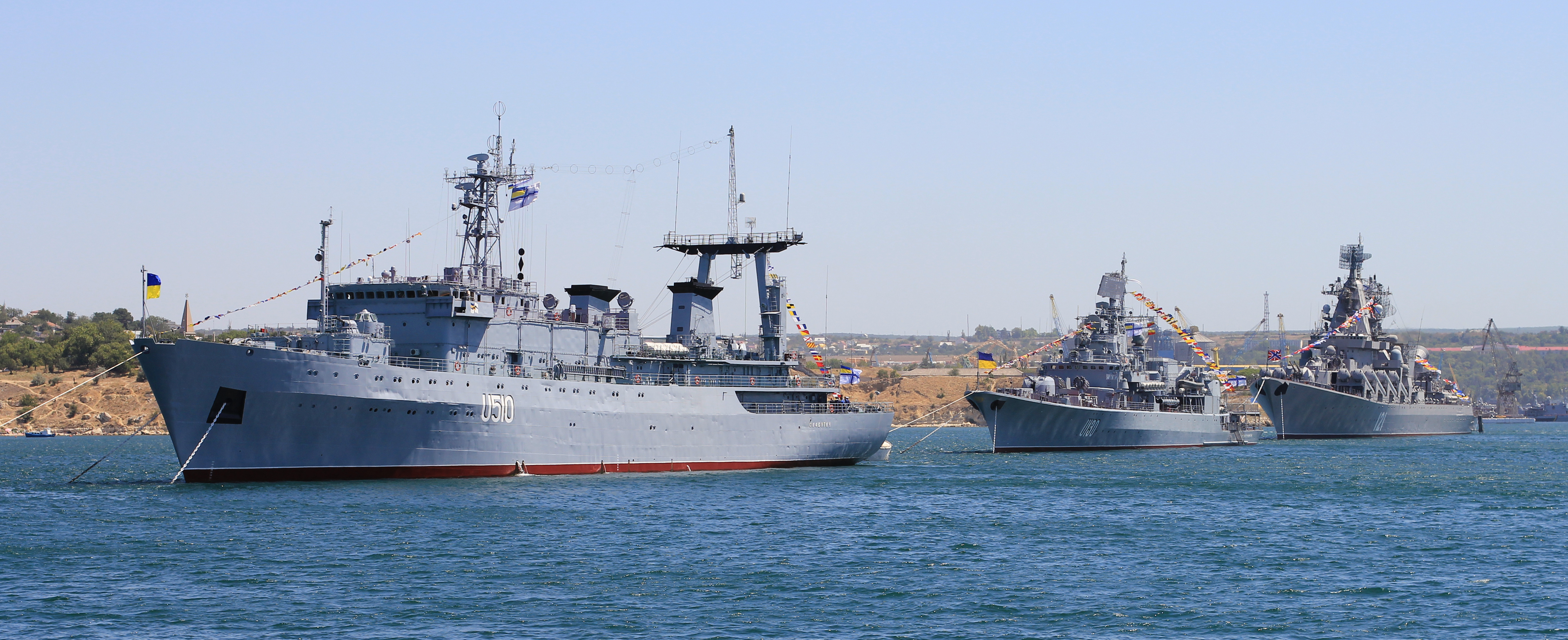 The ships of the Ukrainian Navy and the Russian Navy in Sevastopol Bay in 2012. Left to right: Ukrainian naval command ship Slavutych (U510), Ukrainian frigate Hetman Sahaydachniy (U130), Russian guided missile cruiser Moskva (121).